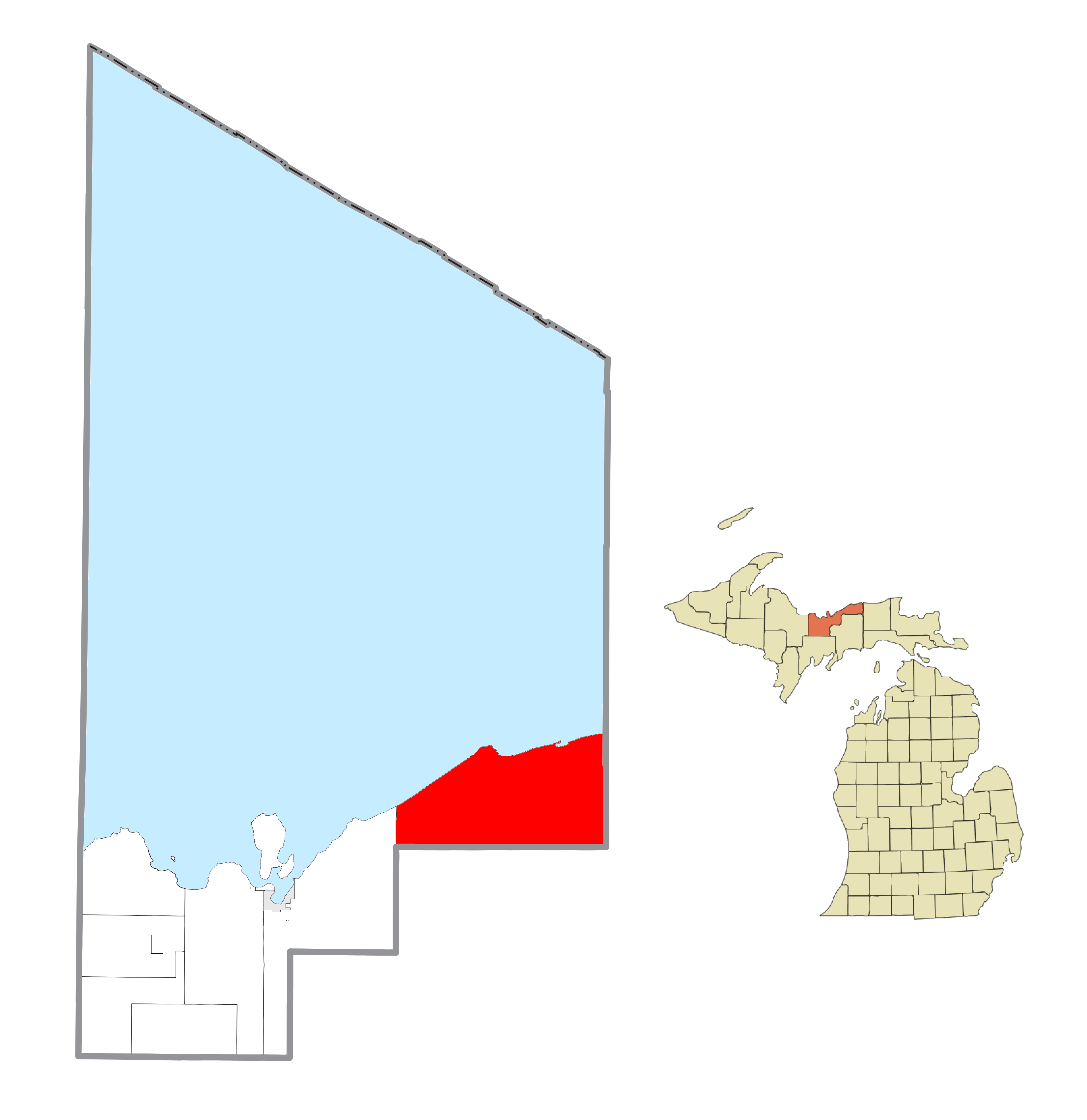 Burt Township (Alger), MI